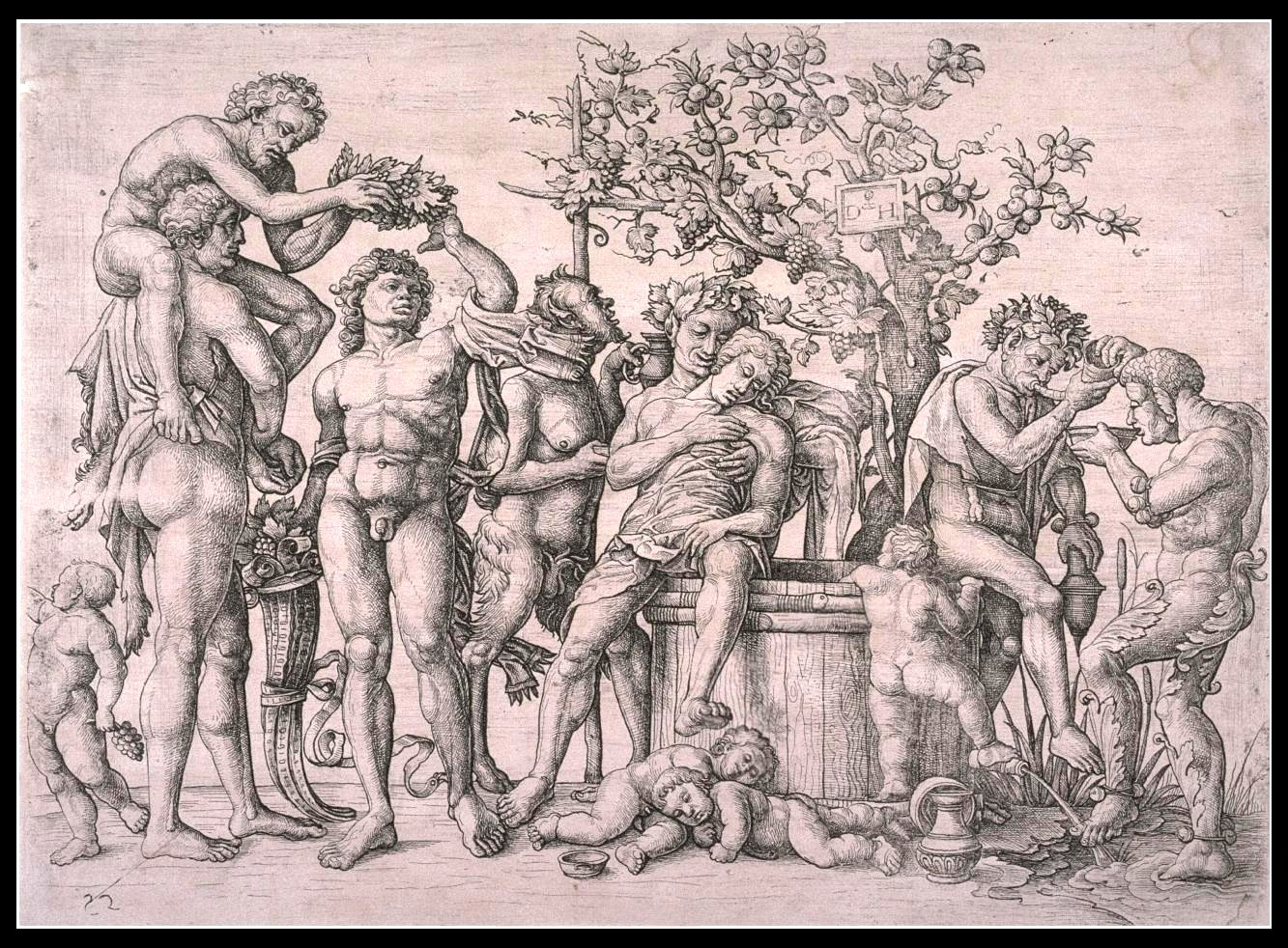 "Bacchanalian Scene"